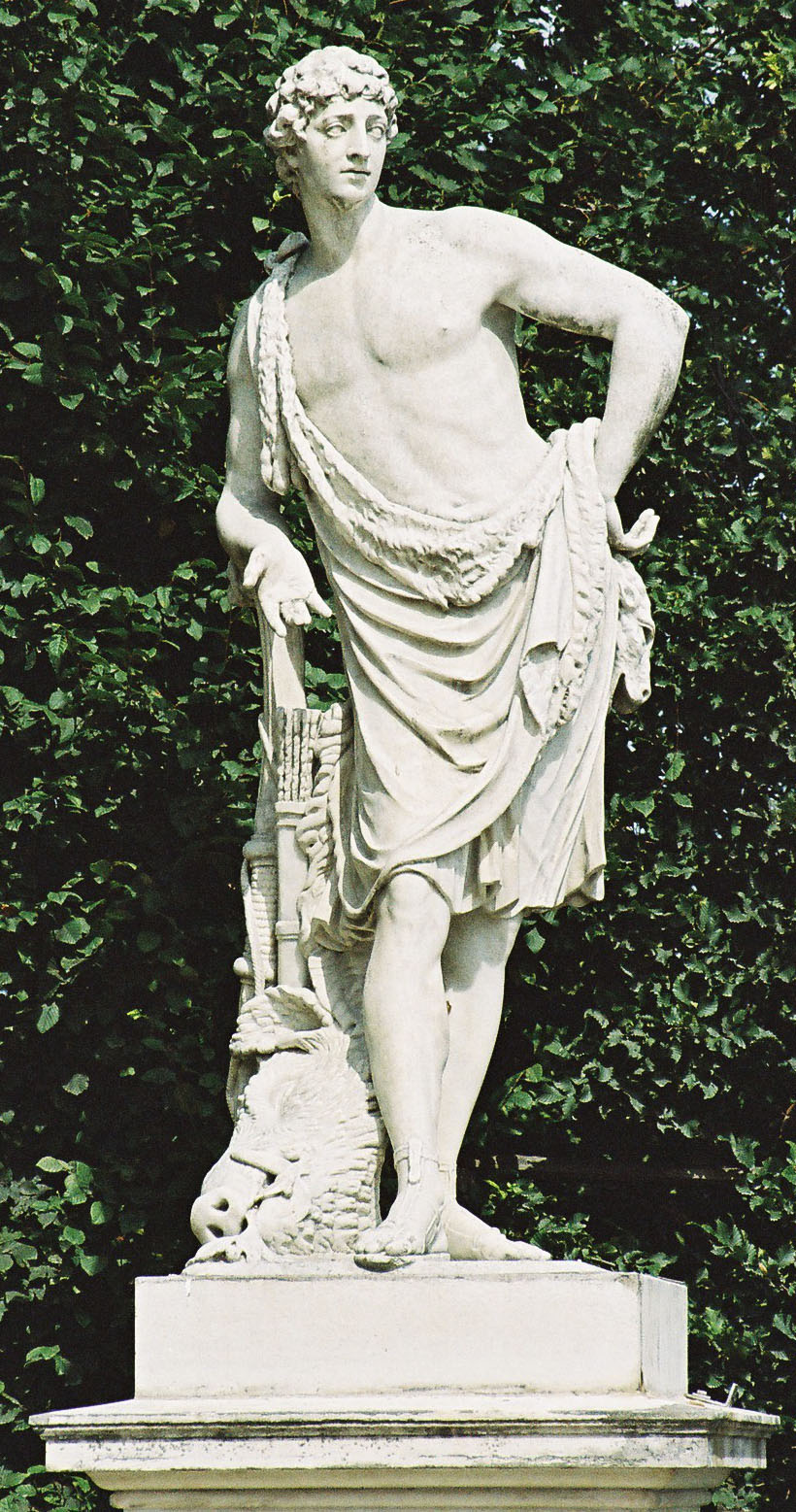 Vienna, Schönbrunn gardens, statue Meleagros